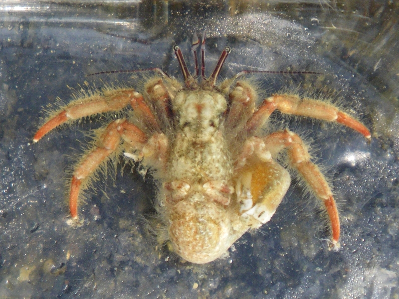 Paguristes ortmanni Miyake, 1978. at Nagasaki